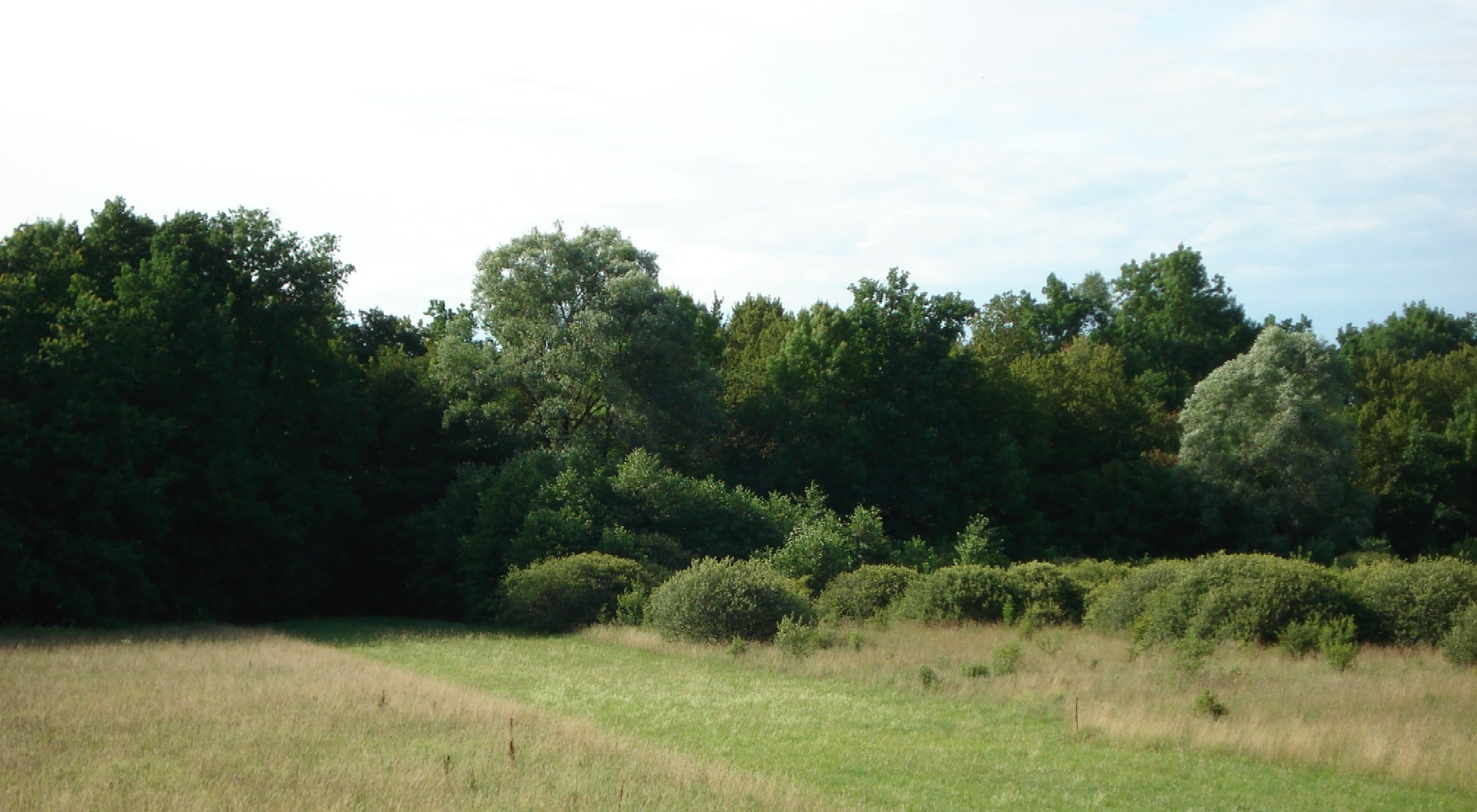 Mixed forest near Samobor, Croatia